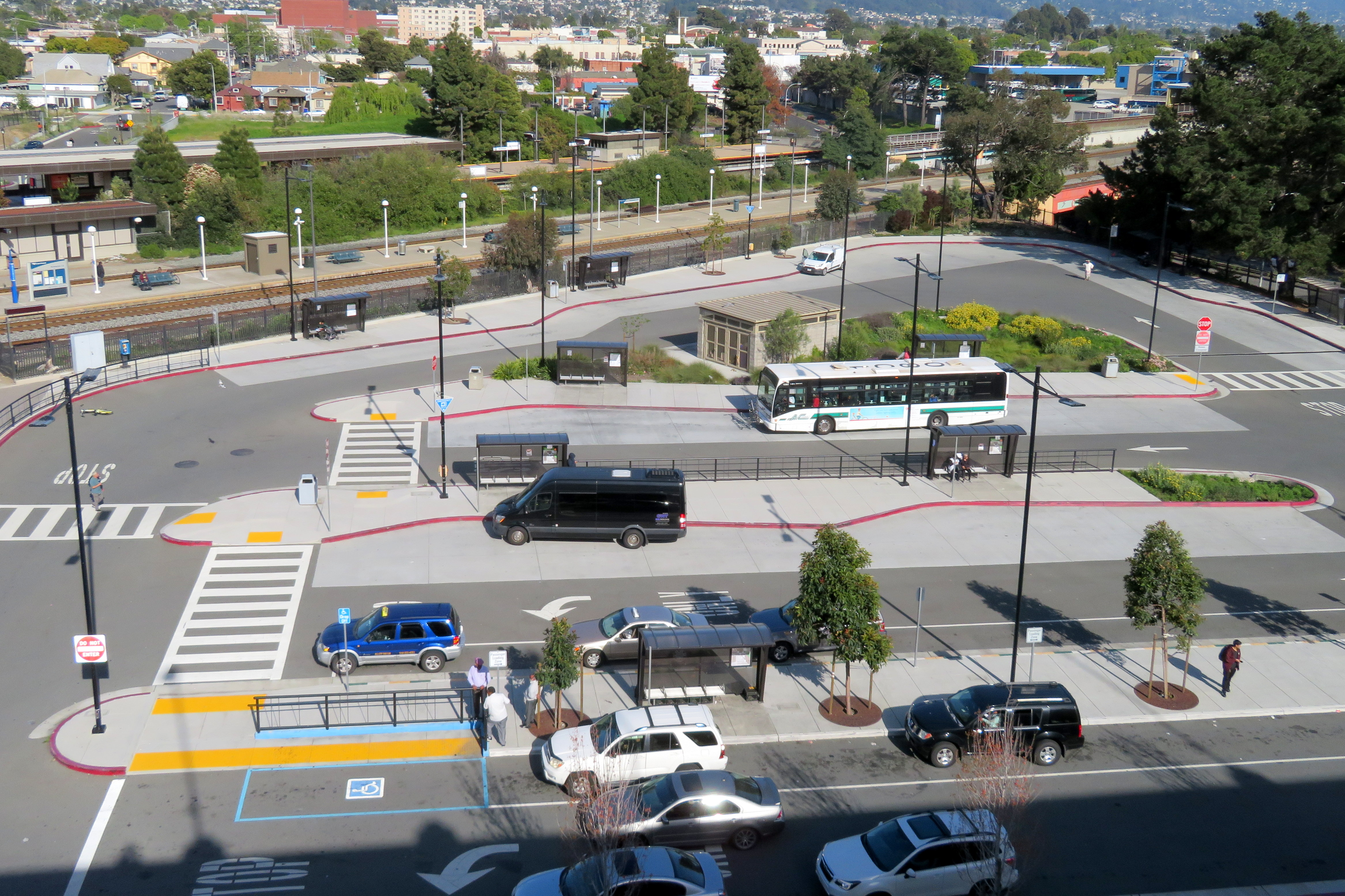 Bus bays and drop-off area at Richmond station in April 2018